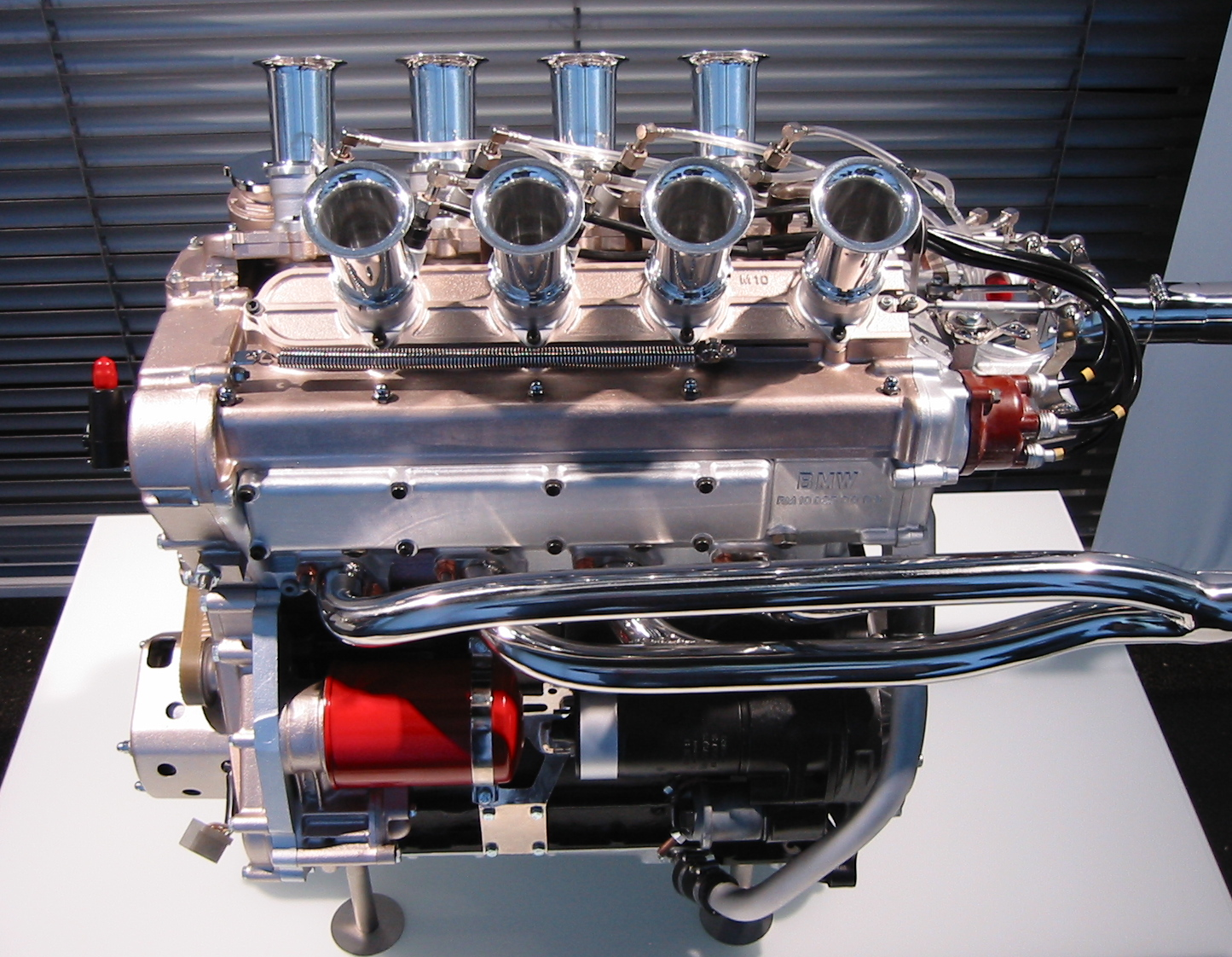 BMW Formula 2-Engine M10 at BMW-Museum Munich